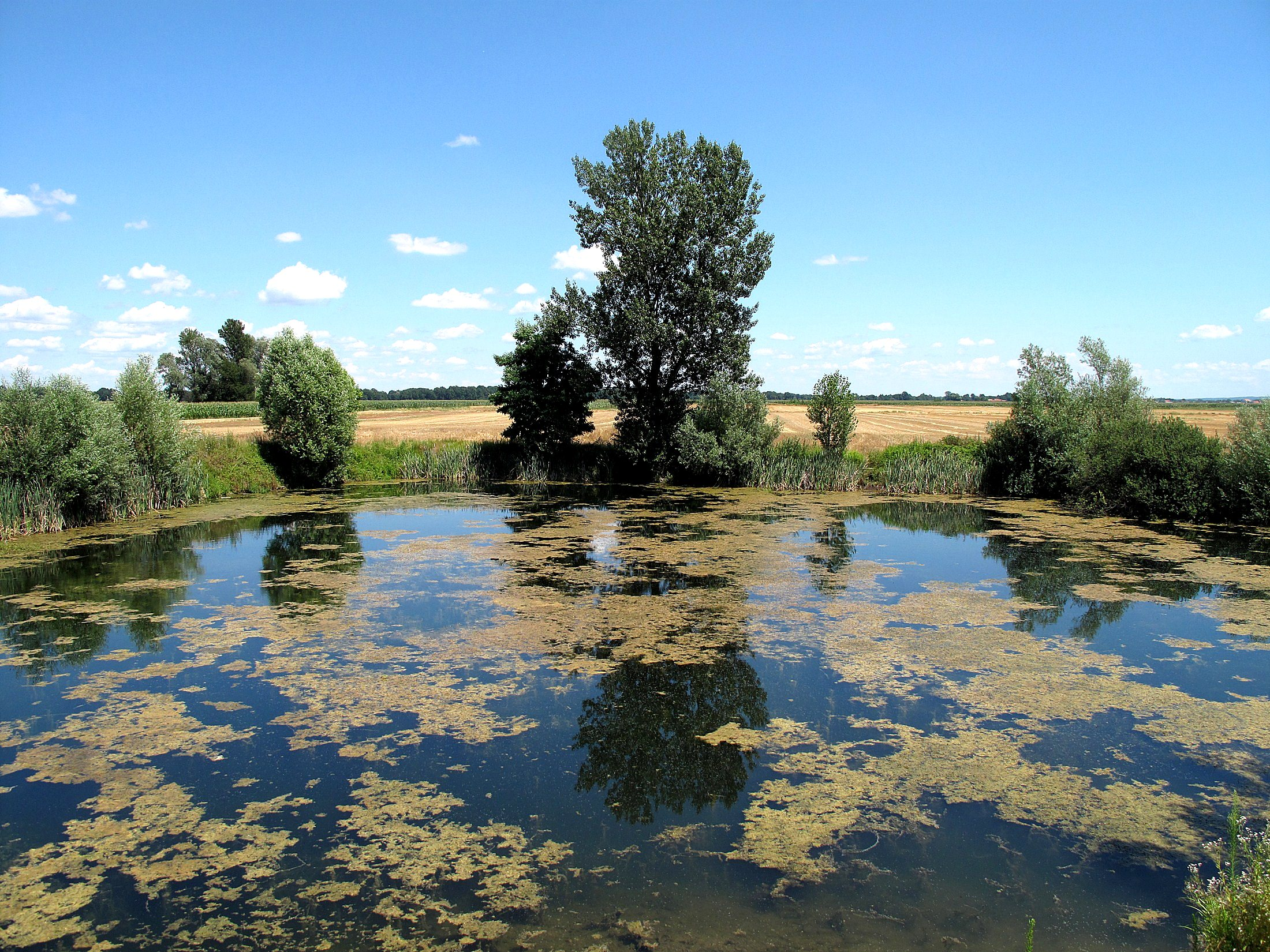 the pond near village Melinci - Slovenija